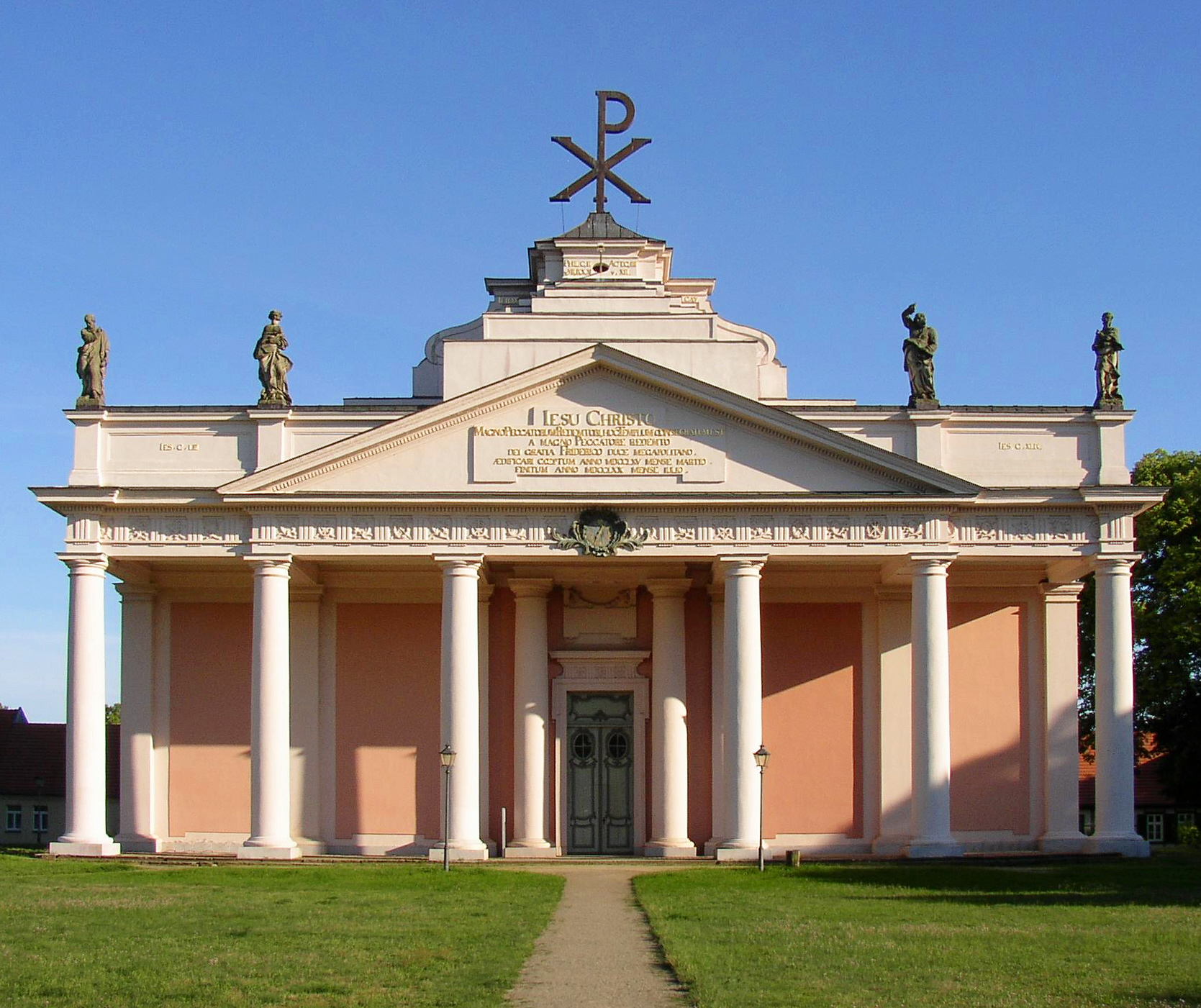 Church in Ludwigslust in Mecklenburg-Western Pomerania, Germany